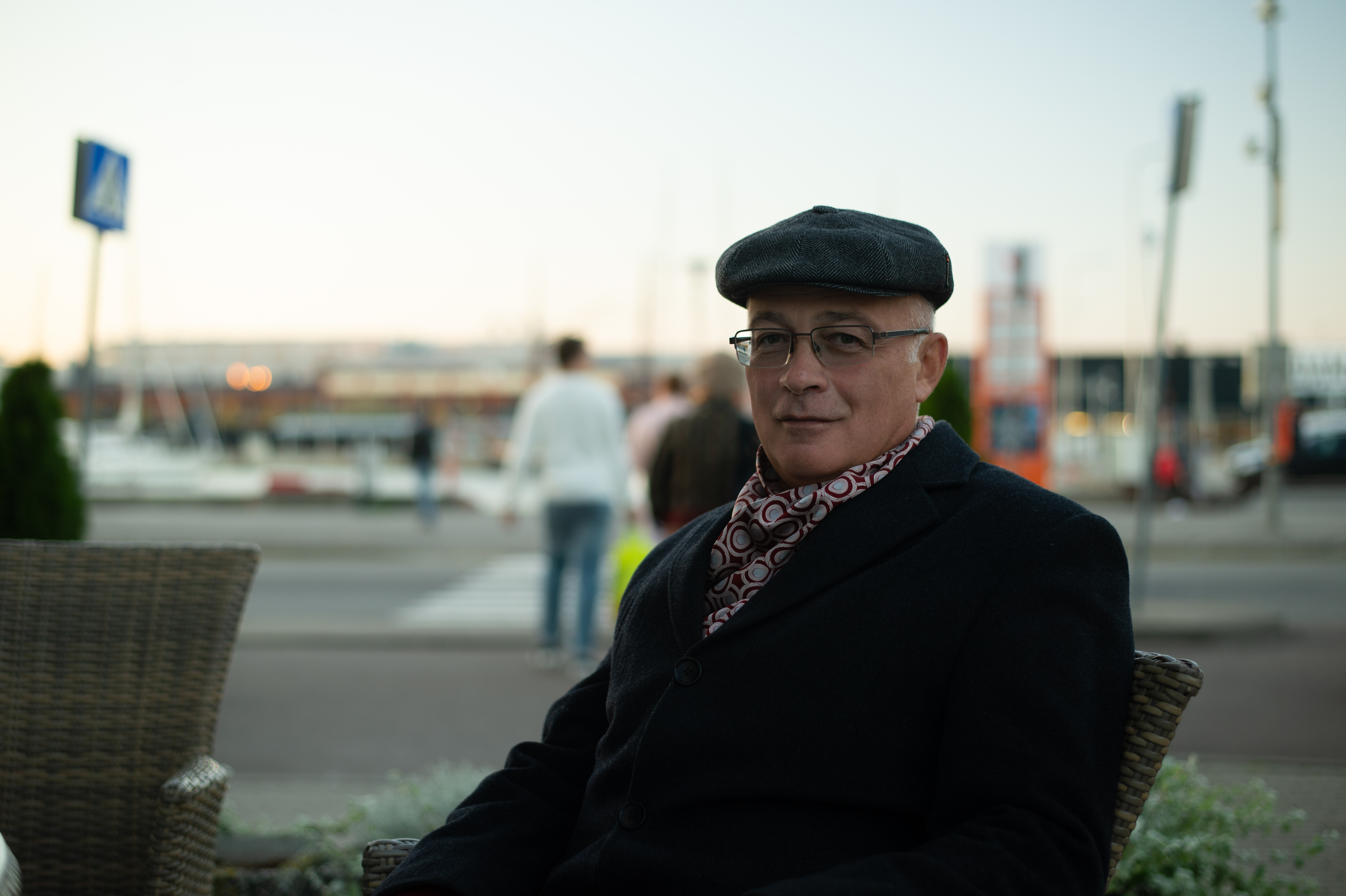 Semen Ekshtut in Tallinn